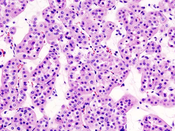 Histopathological image of renal oncocytoma. Nephrectomy specimen. Hematoxylin & esoin stain.